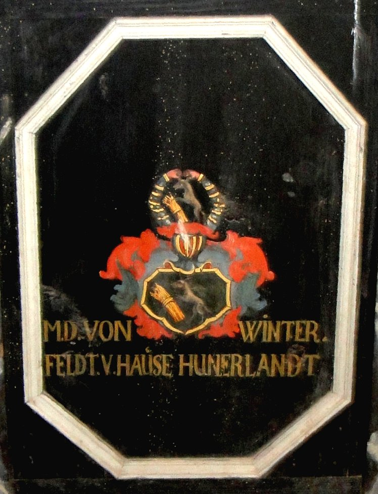 Interiors at nuns' matroneum at church in Monastery in Dobbertin, district Parchim, Mecklenburg-Vorpommern, Germany